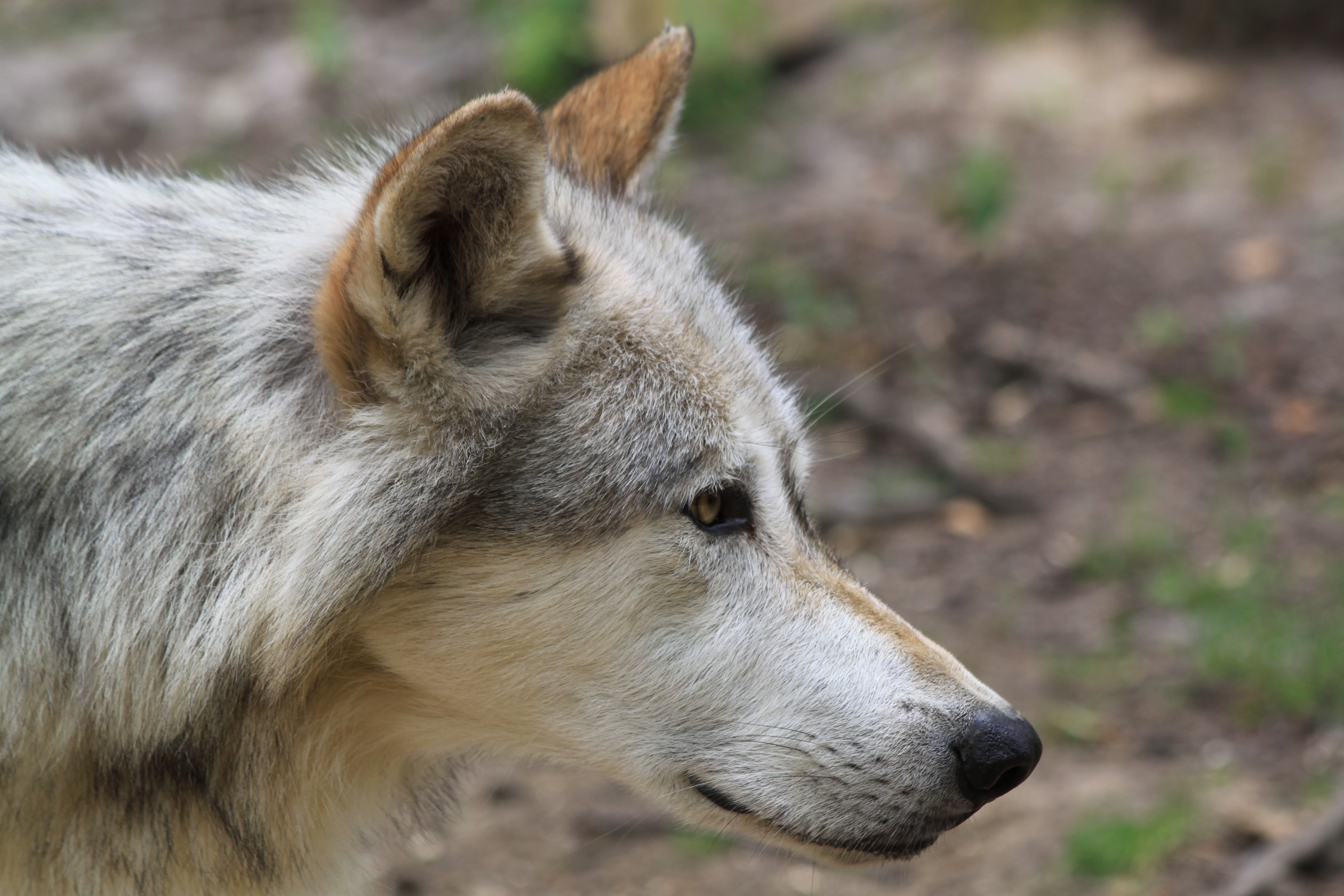 Head of a European grey wolf (Canis lupus lupus)